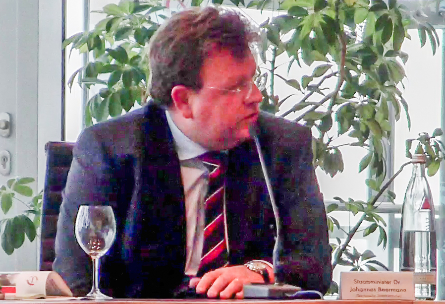 German polititian Johannes Beermann